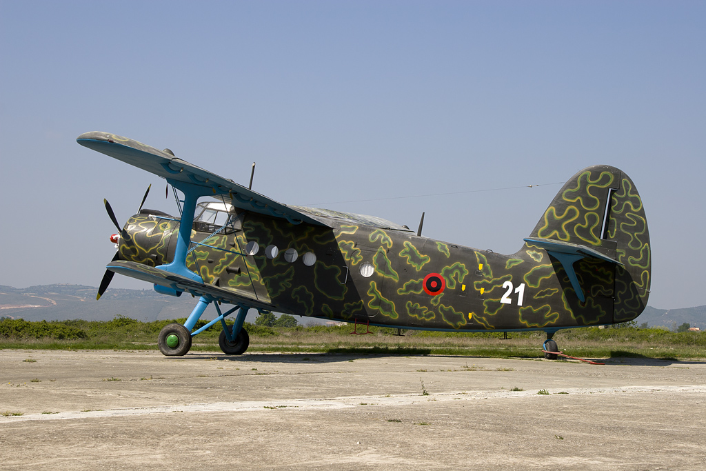 The only Y5 that was still used in 2007. Based at Kucove airbase